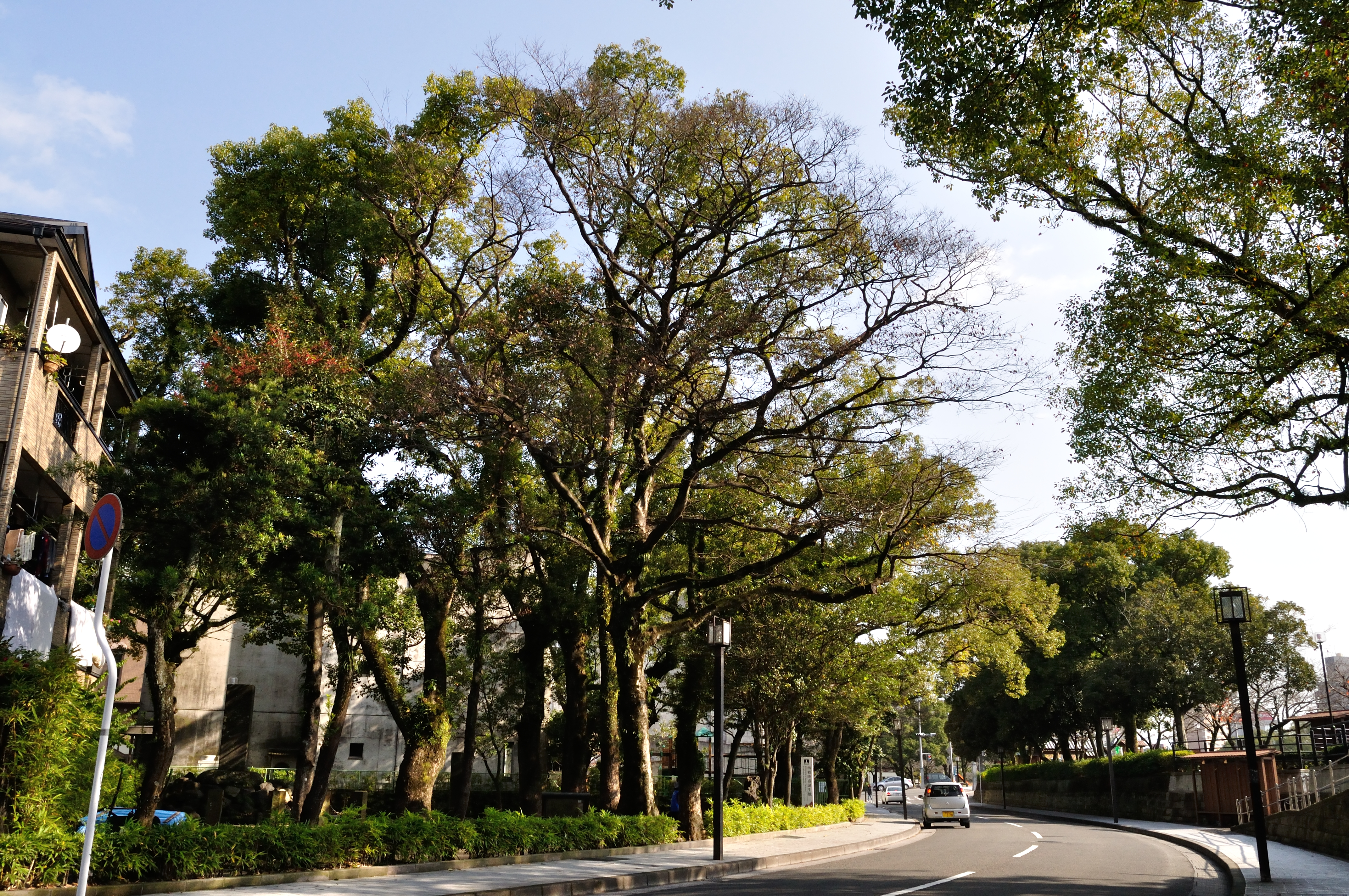 Birthplace of Saigō Takamori at Kagoshima, Japan